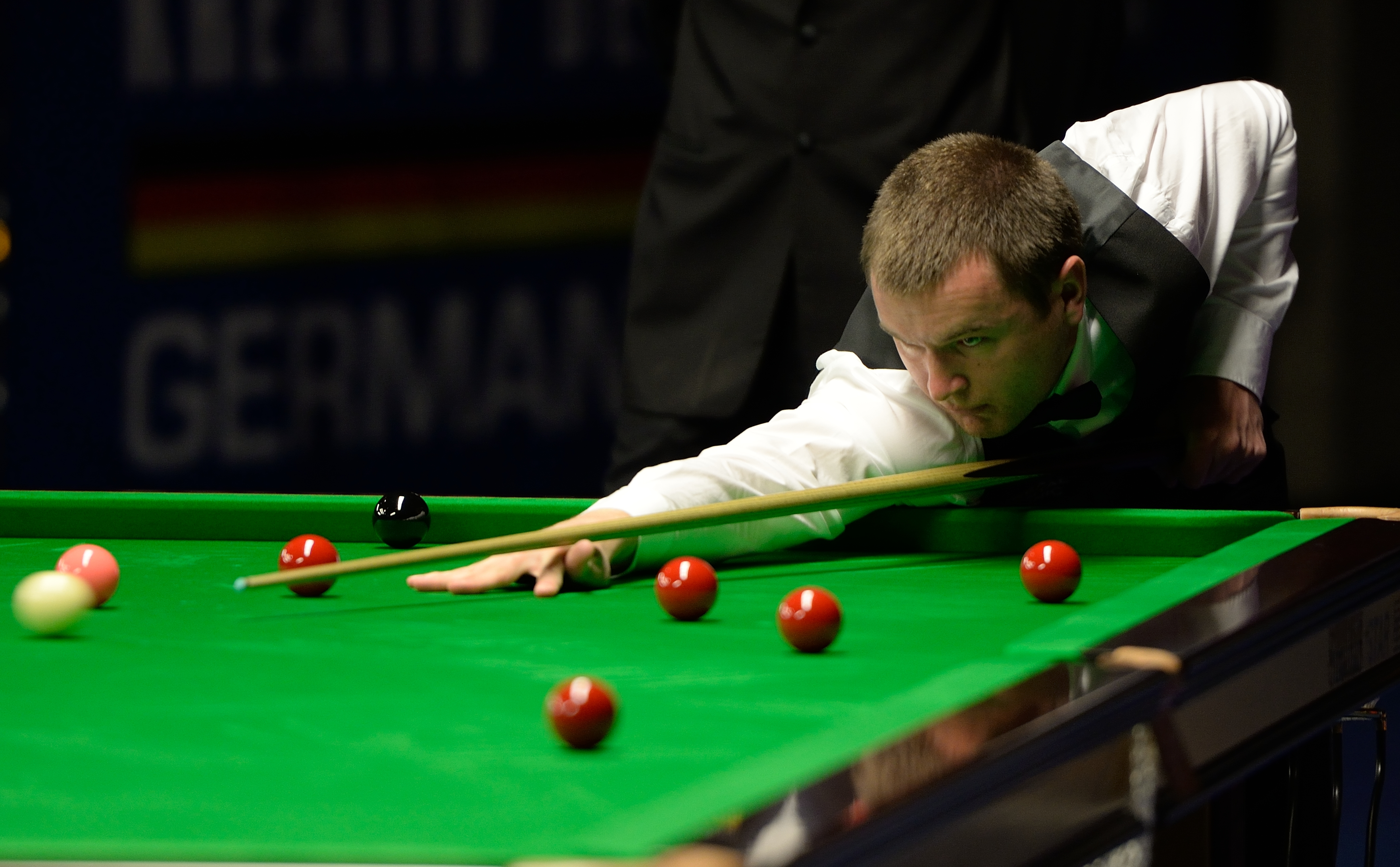 Picture taken in Berlin during the Snooker German Masters in 2015. Maike Kesseler.